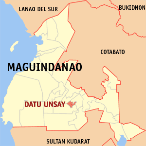 Map of the Maguindanao showing the location of Datu Unsay